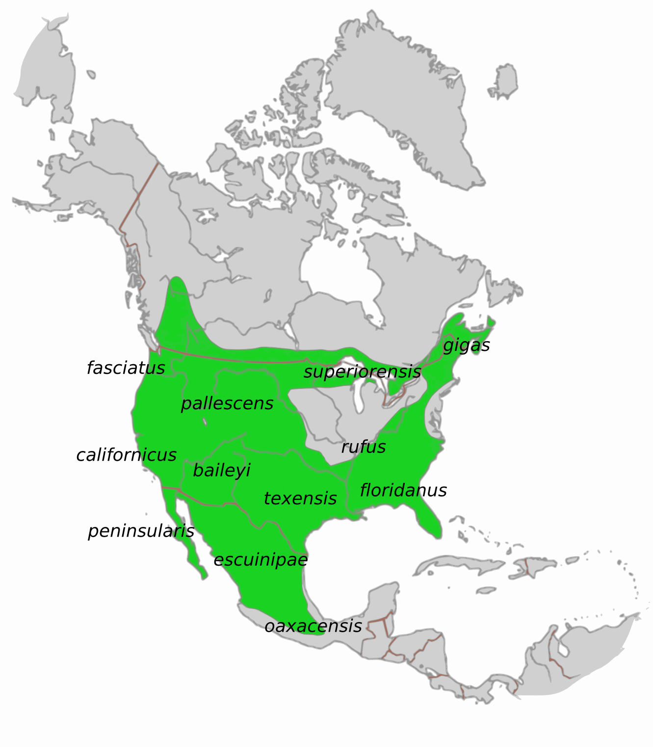 Distribution of Lynx rufus and localisation of its subspecies.